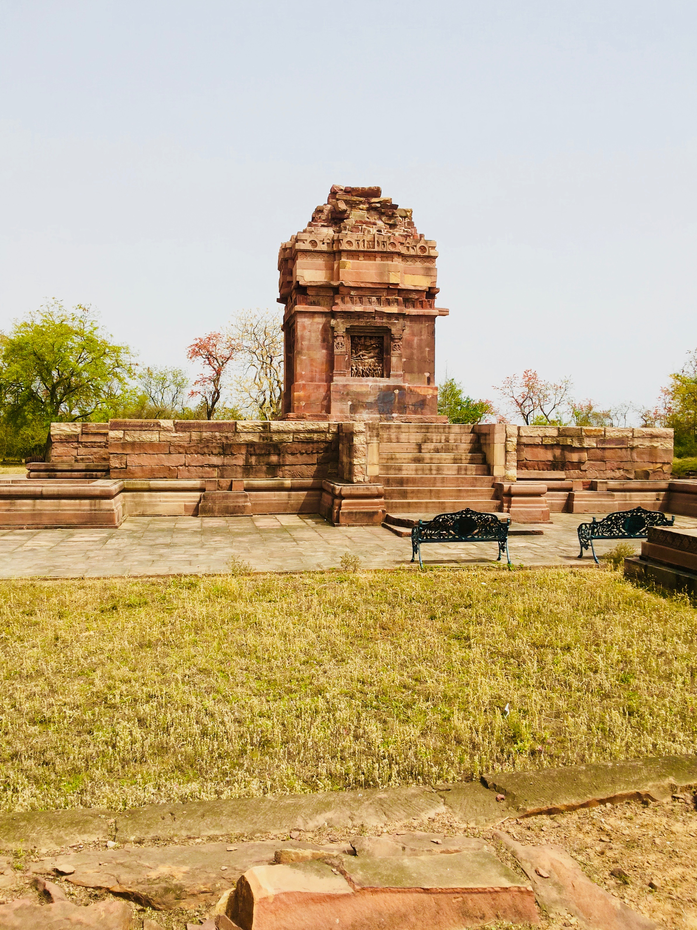 The image is showing remains of the Dashavatara Temple in Deogarh, Lalitpur